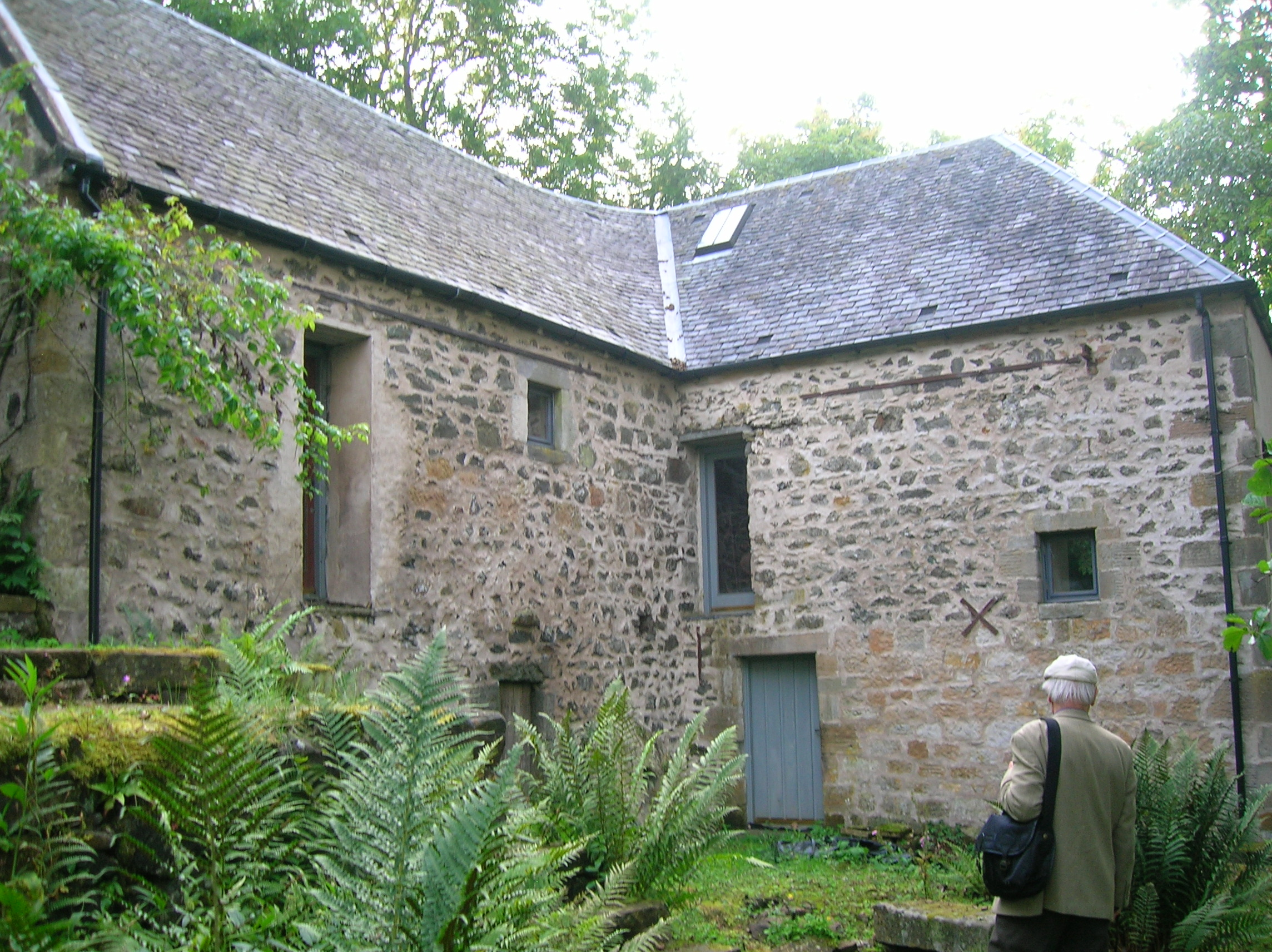 Aiket Mill, previously a corn mill on the Glazert Water. Dunlop, East Ayrshire, Scotland.